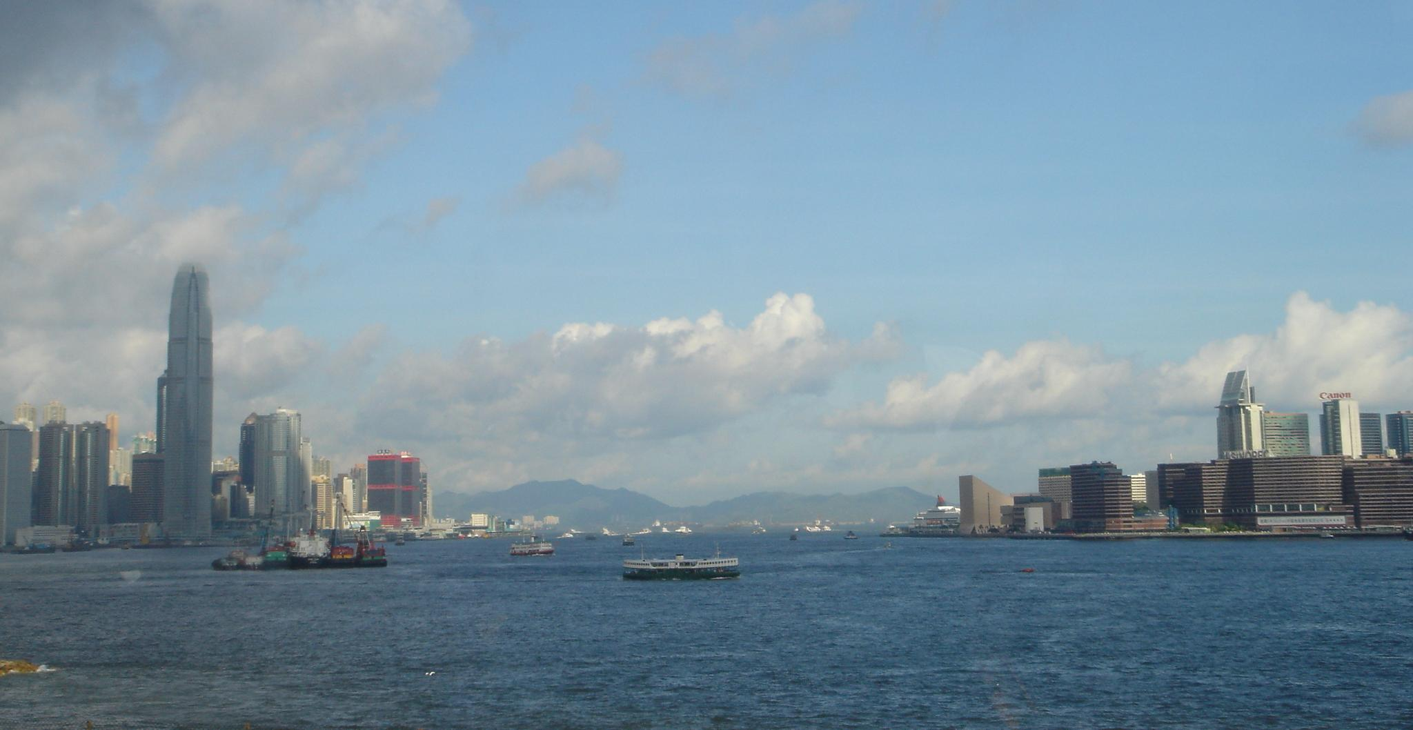 The photo is taken by myself on 10 July 2007.